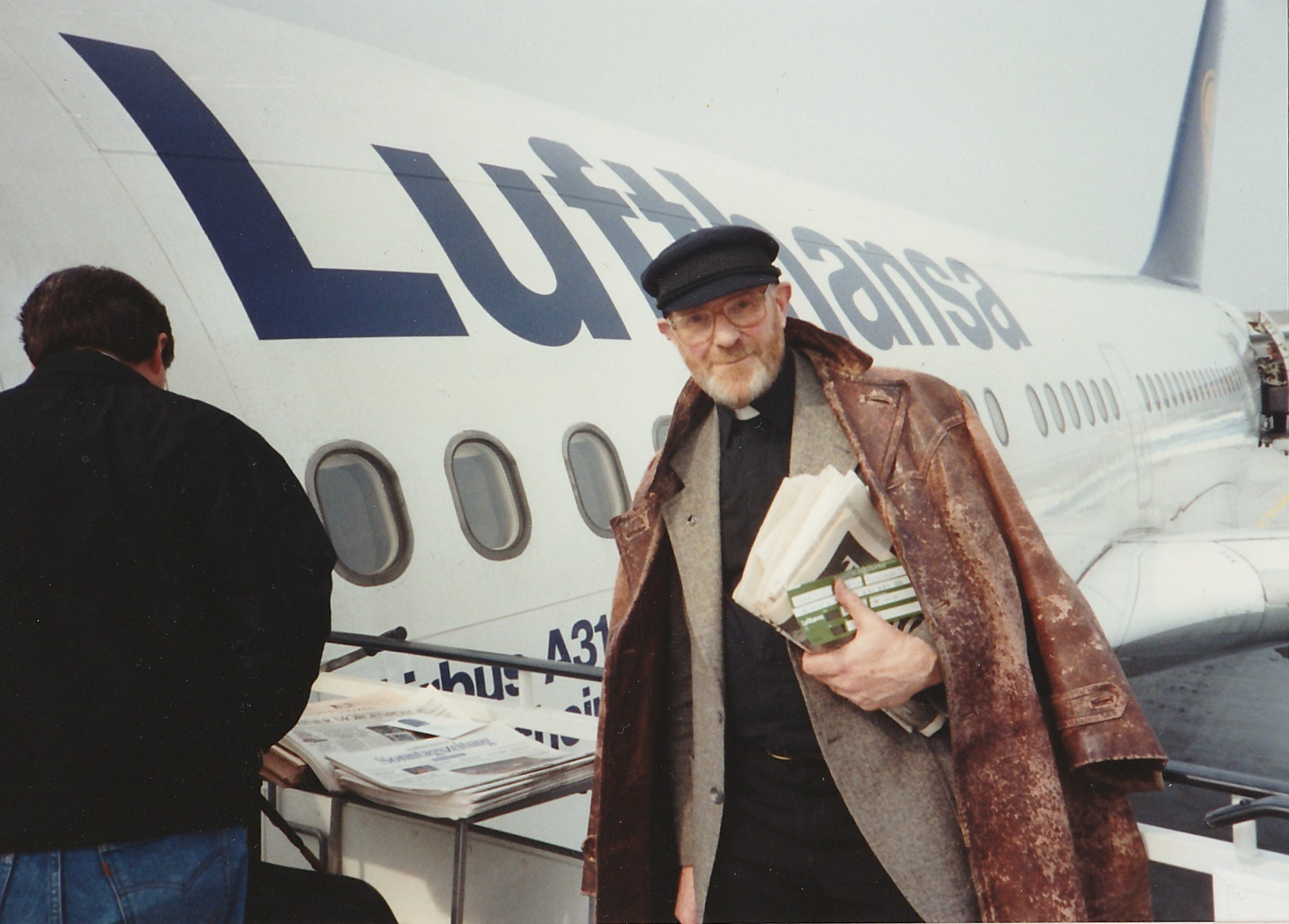 Picture of Paul Oestreicher on route to the 50th Anniversary of the bombing of Dresden. Taken by a friend.